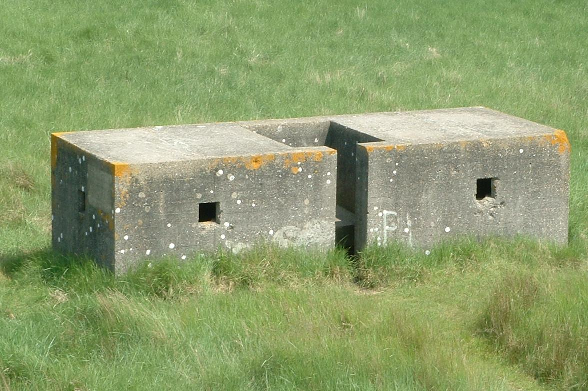 Front view of same. Section drawing of pillbox of this type Pillbox - Type Lincolnshire three-bay, Saltfleetby, OS reference TF462928 Easy access from public footpath. Photographed by Gaius Cornelius on 07-Jun-06. OS reference TF462928